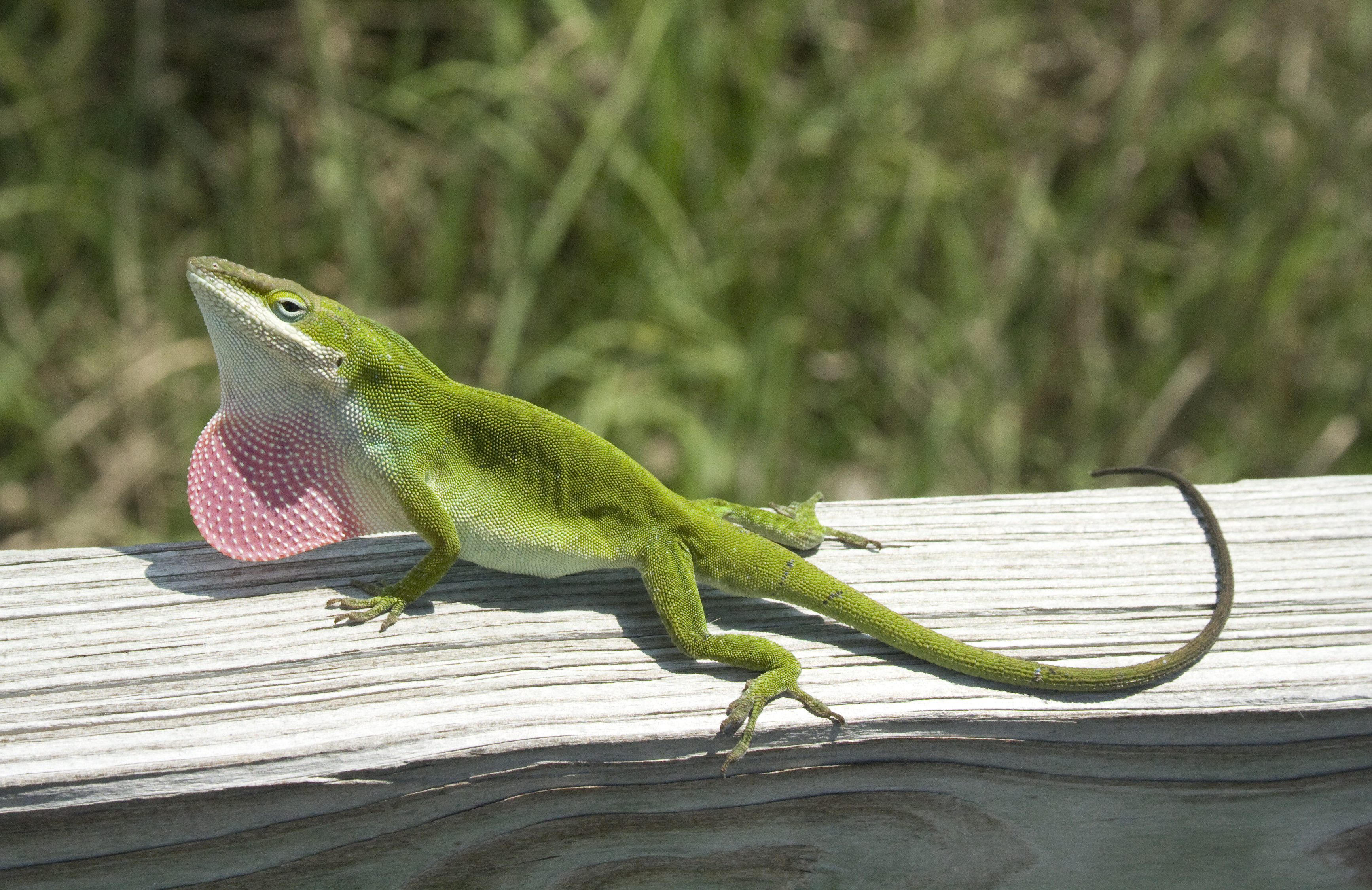 Carolina Anole showing dewlap